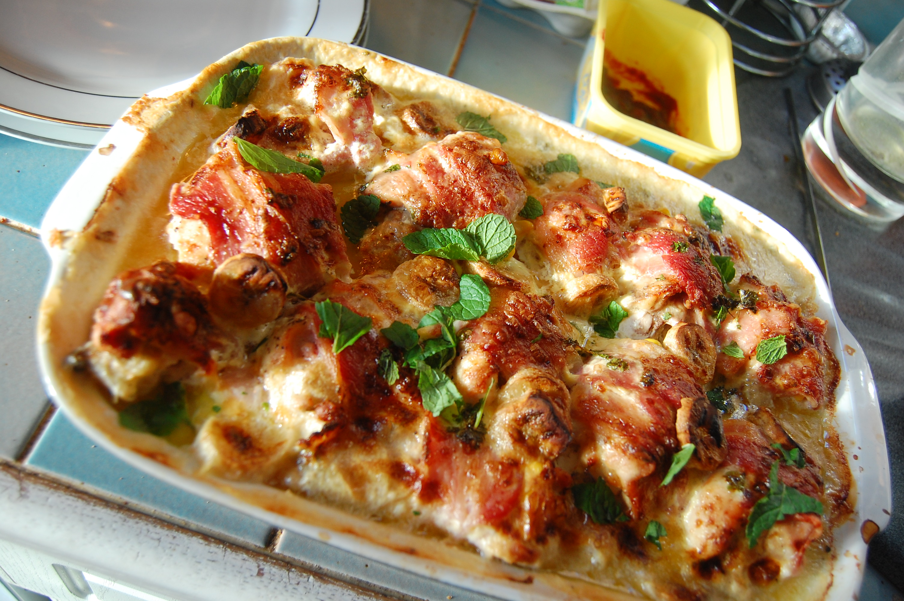 Chicken Maryland with bacon, corn, banana, chick peas, cannelloni beans, fresh mint, wine and cream.